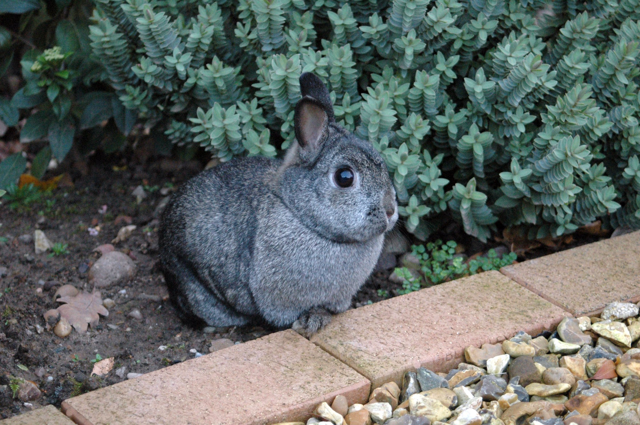 Photograph by Erebus555 using Nikon D70. This is a pet female Netherland Dwarf rabbit sitting on a brick.